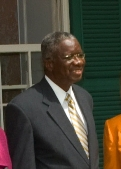 Freundel Stuart